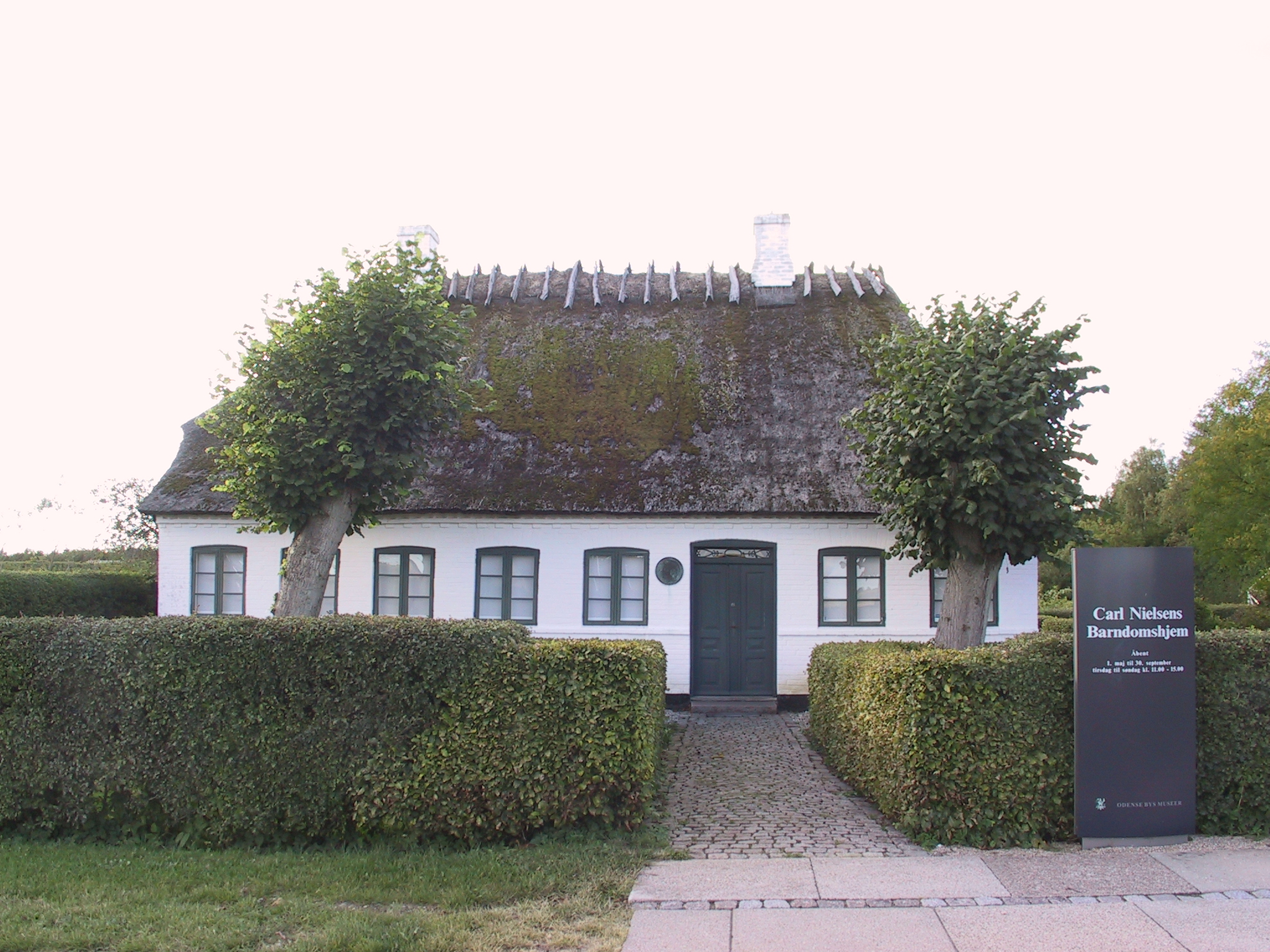 Composer of classical music Carl Nielsen's Childhood Home, now a museum, in the town Nr. Lyndelse near Odense in Denmark. Image taken on 2 October 2005 by Kåre Thor Olsen.